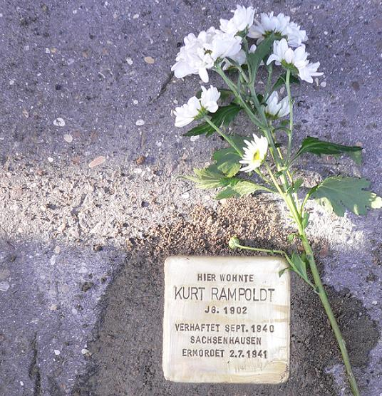 Memorial "Stolperstein" for Kurt Rampoldt, a homosexual victim of the Nazis. It is located at Strielstrasse in the city Hanover The text reads: "Here lived Kurt Rampoldt, born 1902. Arrested September 1940. Sachsenhausen Concentration Camp. Murdered on 2 July 1941."